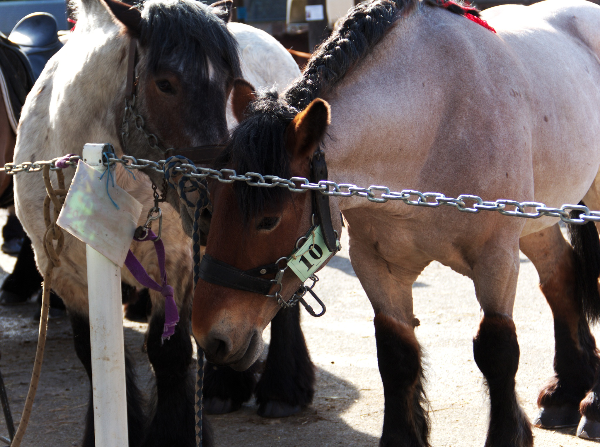 Two horses on the Comice agricole in Routot (Eure, France). It was already late and they were tired.